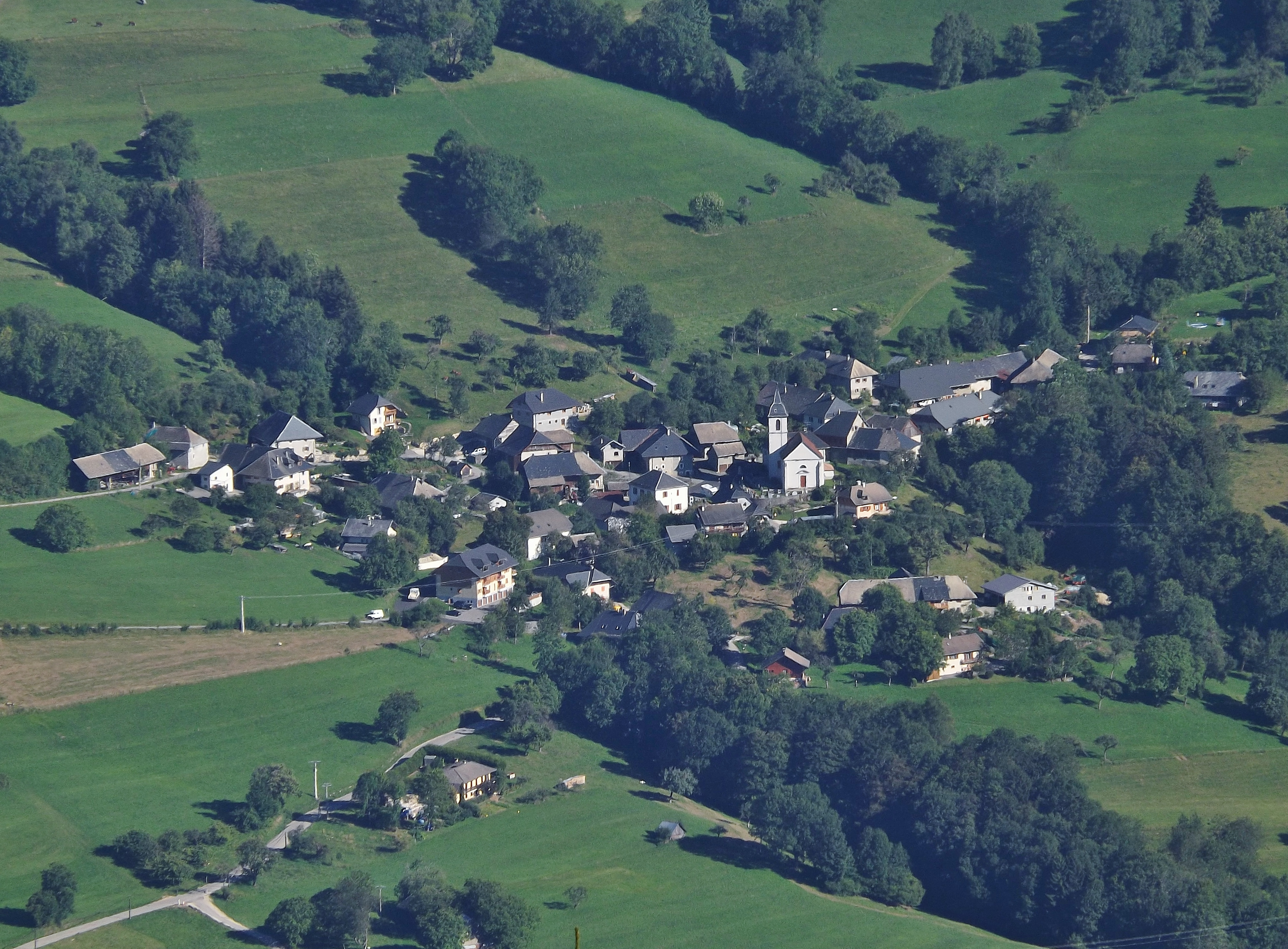 Sight from the Semnoz mount, of the French commune of La Chapelle-Saint-Maurce in Haute-Savoie.